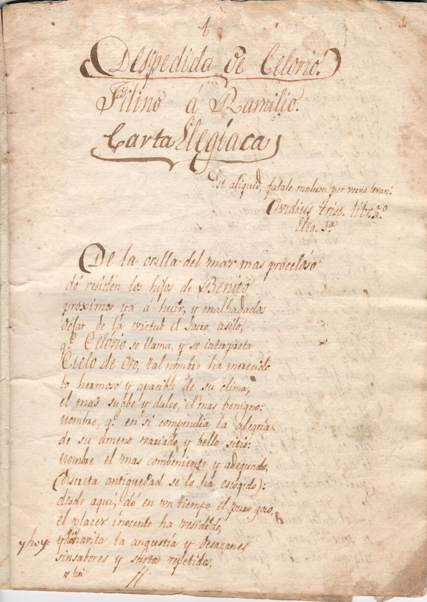 Primera página del poema despedida de Celorio